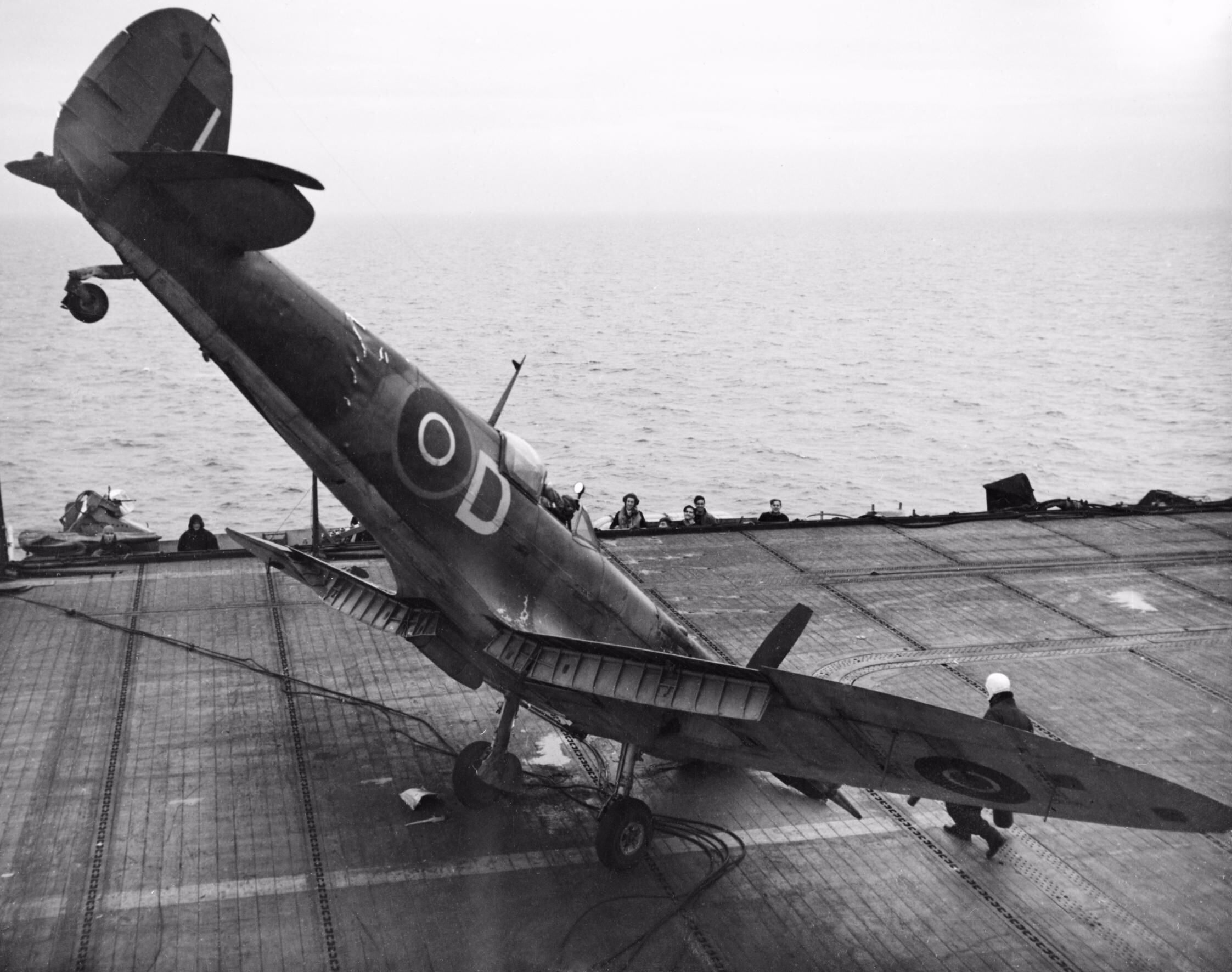 A Supermarine Seafire nosed over on the flight deck of HMS SMITER after a landing accident, 1944. A Supermarine Seafire with its nose resting on the flight deck of HMS SMITER after a heavy landing during exercises.